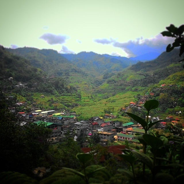 View from the backdoor trail of the hospital compound leading to the highway near town.